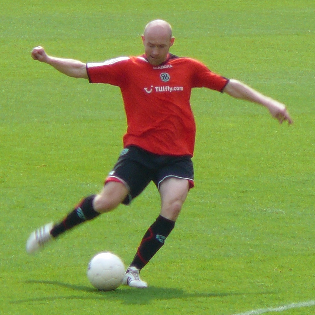 Jiri Stajner